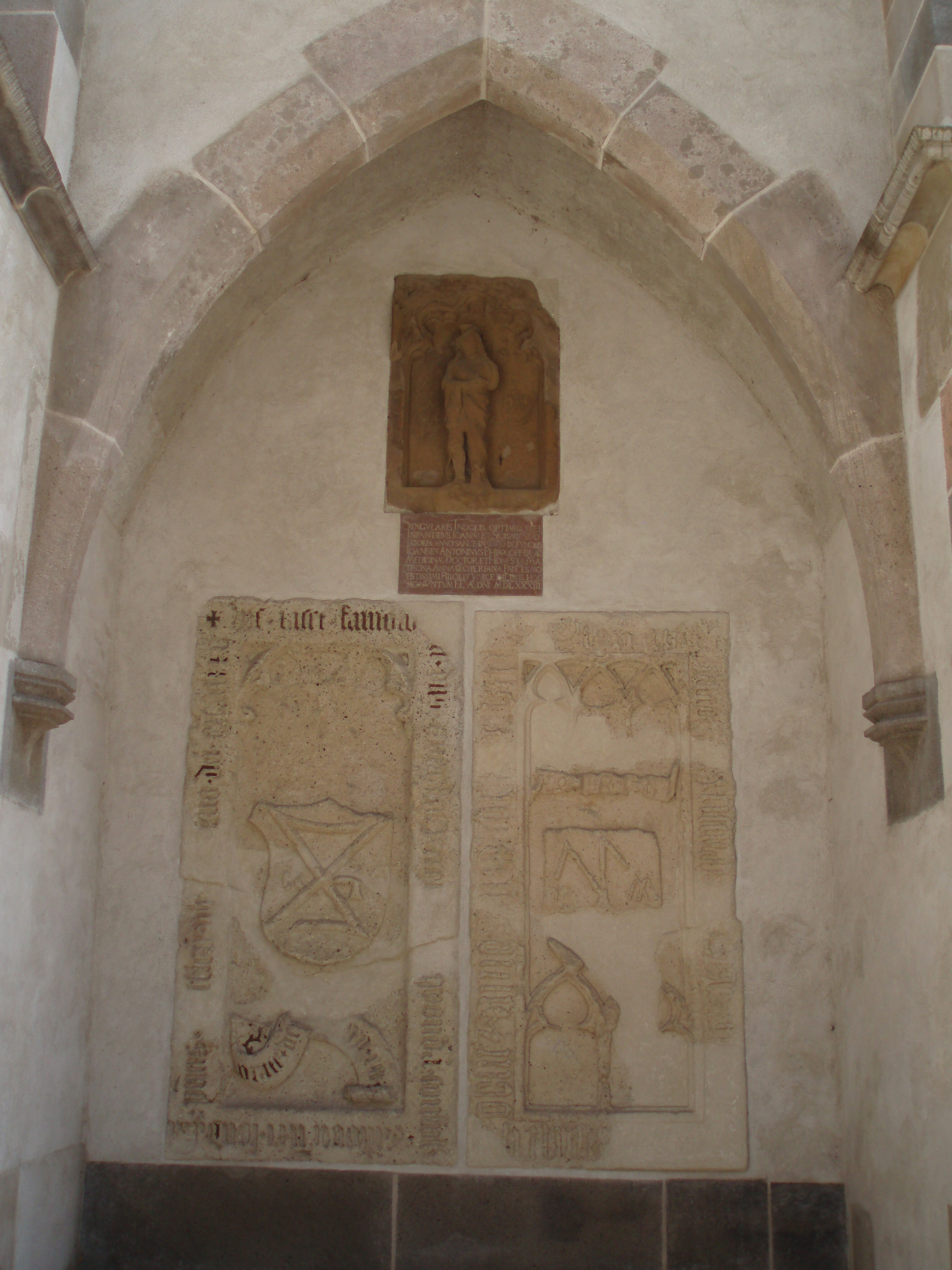 The oldest Grave Stones Košice